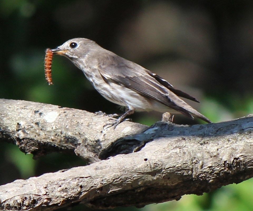 Muscicapa griseisticta (Grey-streaked Flycatcher), eating insect in Japan